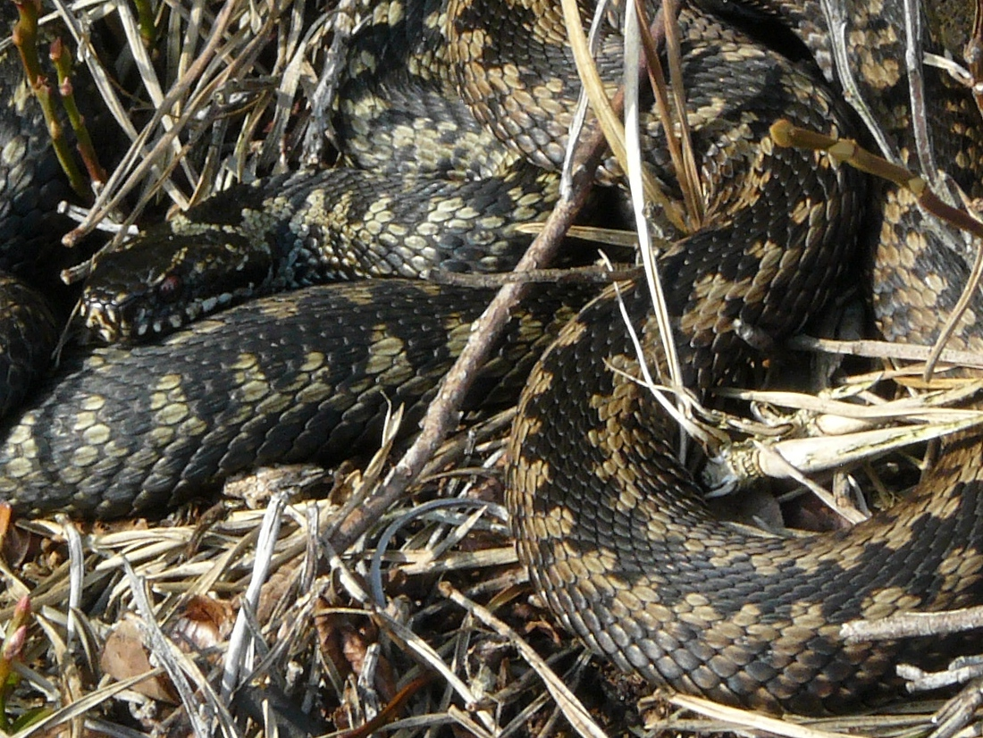 Vipera berus (two snakes) with different colours